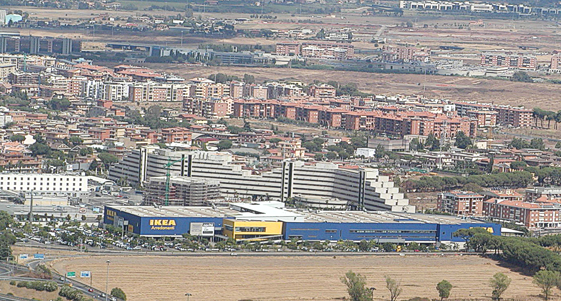 IKEA in Rom